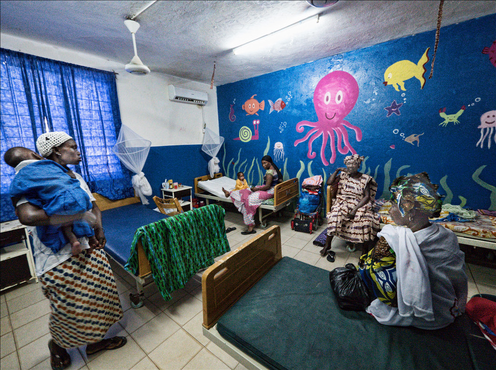 This is the burns unit and the little girl on the bed has very severe burns to her chest.